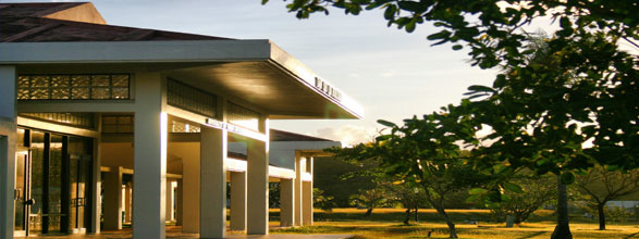 University of Guam RFK Library during sunset.